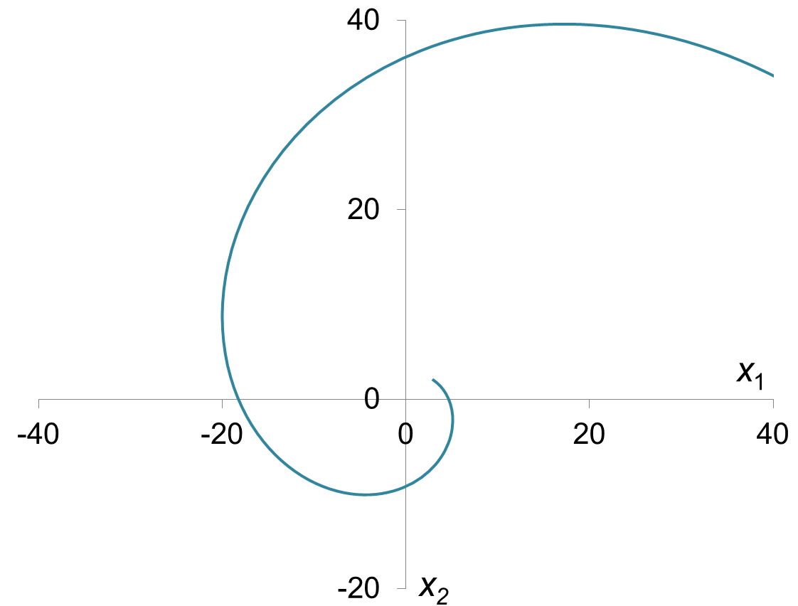 An orbit of spiral source on the two-dimensional linear continuous dynamical system, d x 1 d t = 5 x 1 + 11.5 x 2 , {\displaystyle {\frac {dx_{1 {dt =5x_{1}+11.5x_{2},} d x 2 d t = − 11.5 x 1 + 5 x 2 . {\displaystyle {\frac {dx_{2 {dt =-11.5x_{1}+5x_{2}.} The initial condition is x1 = 3 and x2 = 2.